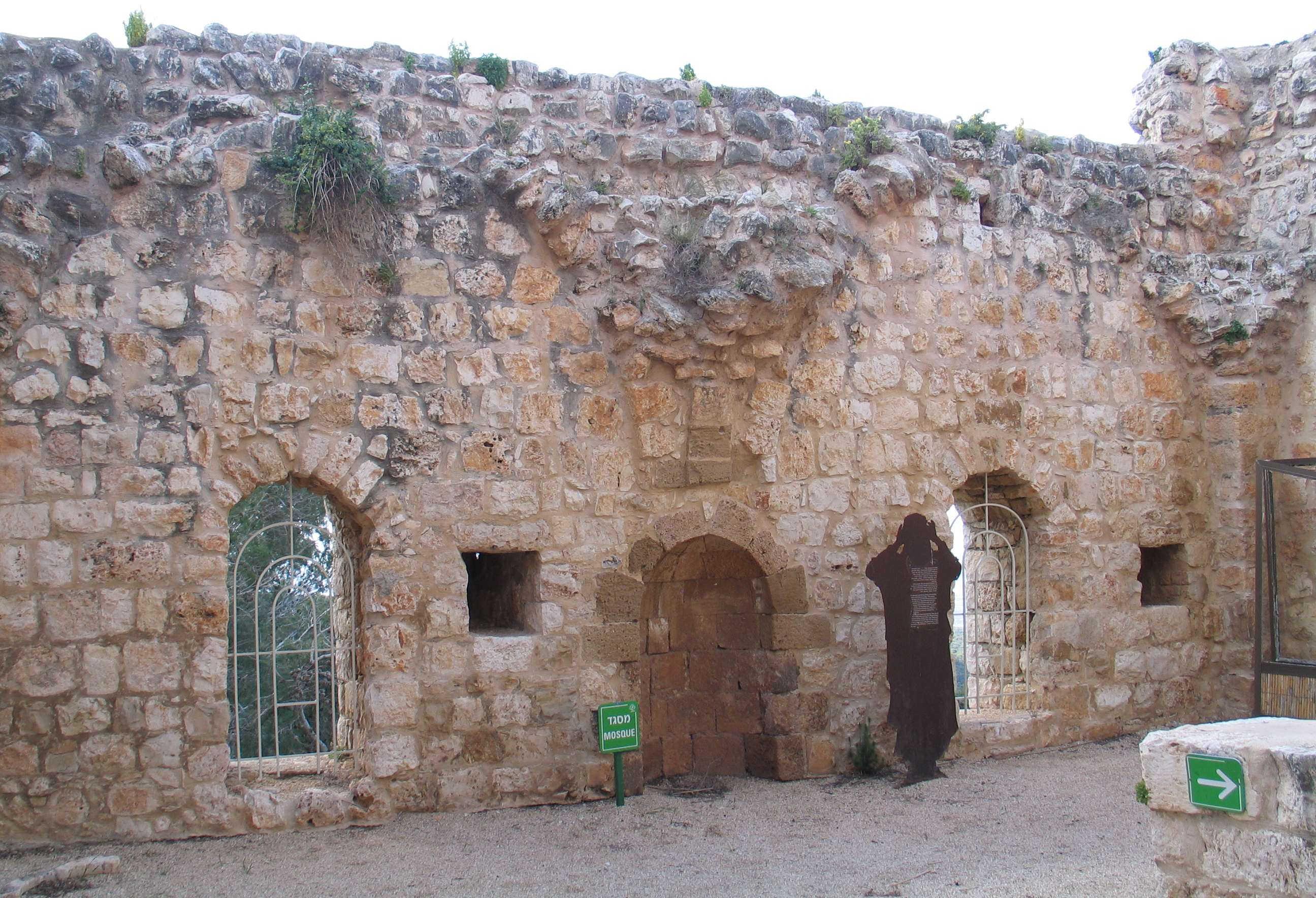 Yehiam fortress, Israel.